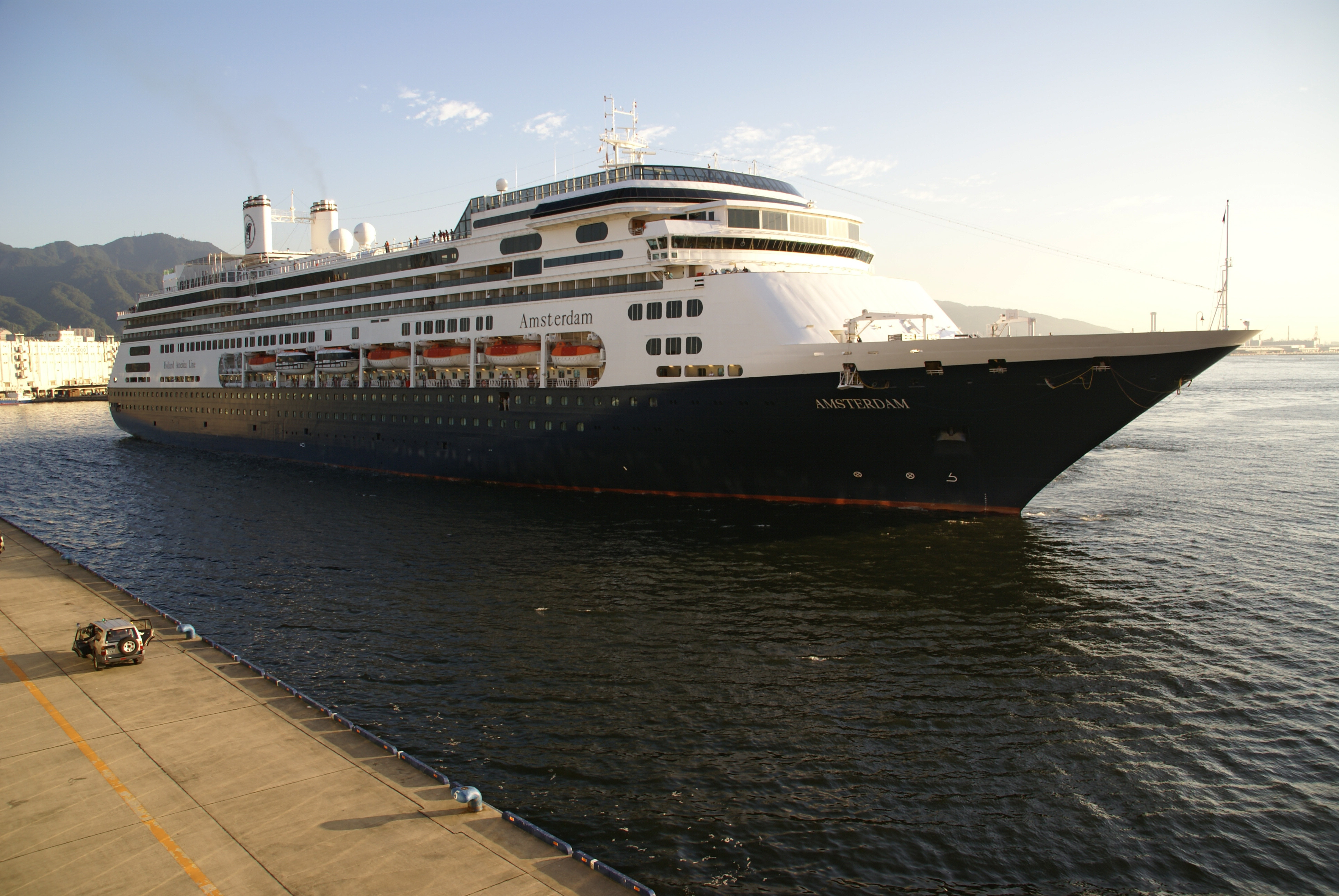 "Amsterdam" at "Kobe Port Terminal" of the Kobe harbor ( Kobe, Hyogo prefecture, Japan)